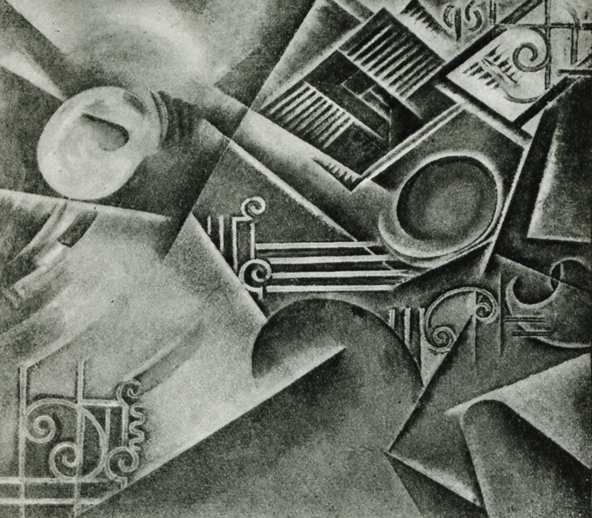 Guilherme de Santa-Rita, Dynamic Perspective of a Room Awakening, 1912, oil on canvas (detroyed; first reproduced in Portugal Futurista, 1917)